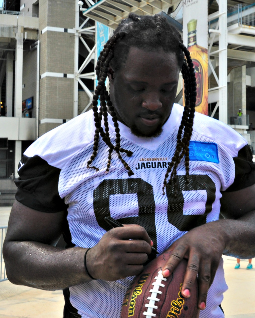 Sen'Derrick Marks at 2014 Jaguars training camp.